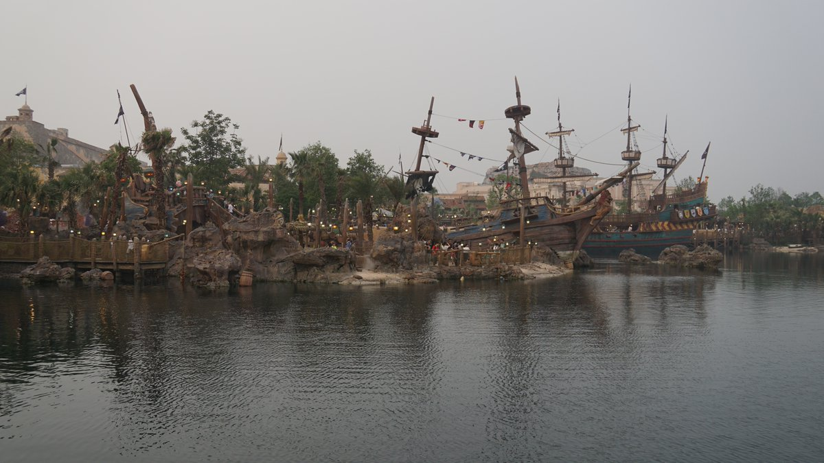 The Treasure Cove themed-area of Shanghai Disneyland Park.